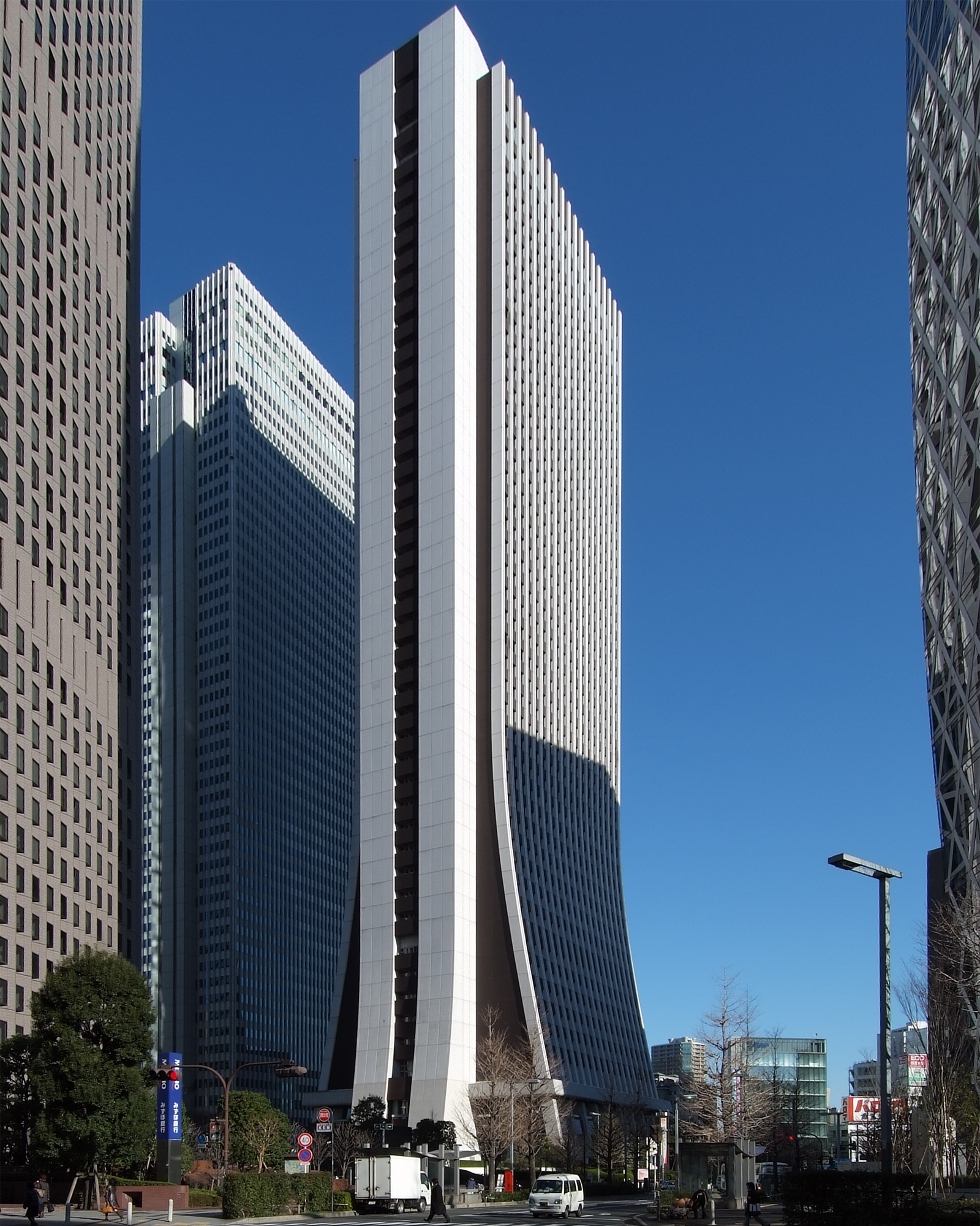 Sompo Japan Head Office Building, at Shinjyuku-ku Tokyo Japan.